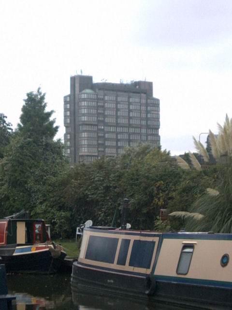 Buckinghamshire County Hall, Aylesbury, taken from the Canal Basin, 14th October 2005.